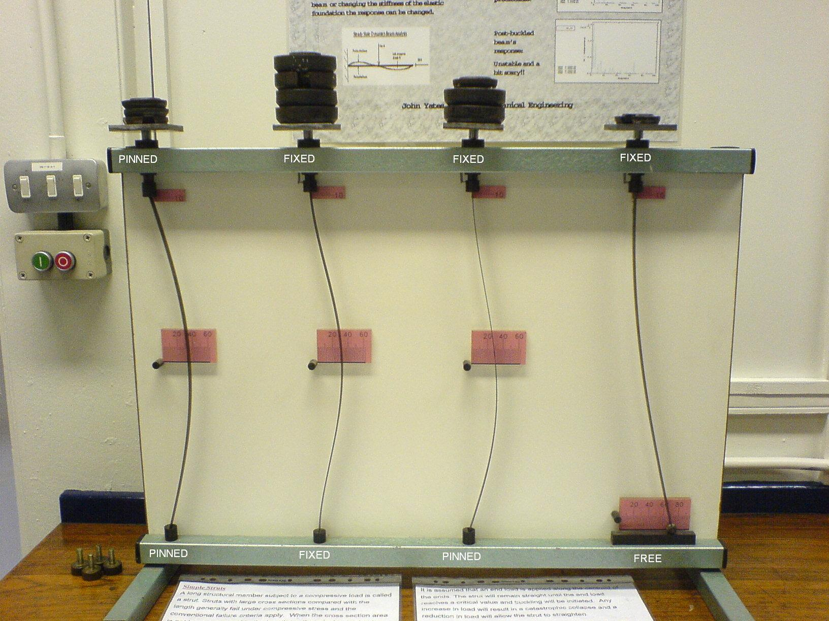 Model produced as part of a University project to demonstrate the different Euler buckling modes and the effect of boundary conditions on the critical buckling load.